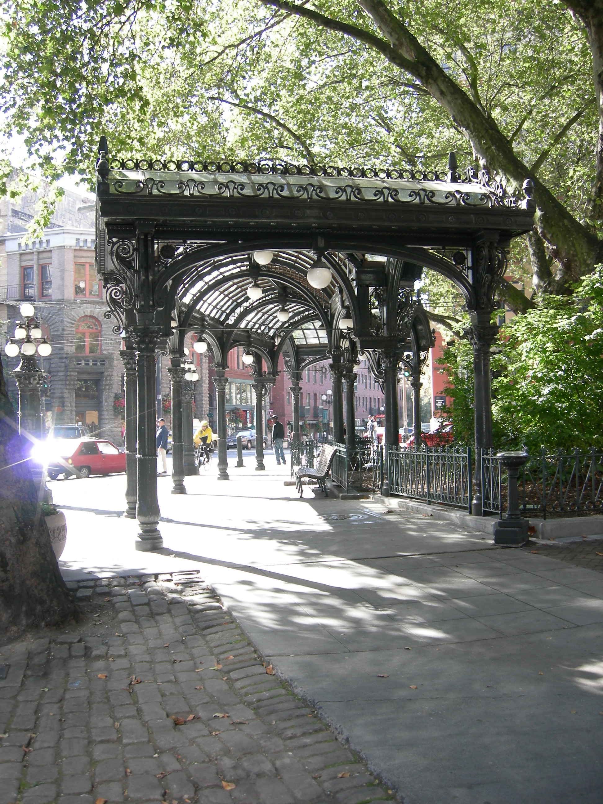 Iron Pergola, Pioneer Square, Seattle, Washington, USA. The pergola is listed in the National Register of Historic Places, ID #71000875. It is further listed along with the nearby totem pole and Pioneer Building, ID #77001340. There is also a broader inclusion for the Pioneer Square - Skid Row Historical District. The original pergola was designed by Julian F. Everett and built in 1909. The original 1909 Pergola was accidentally knocked over by a truck in January 2001 (Gene Johnson, Pioneer Square pergola leveled by truck, January 15, 2001); the current replica (shown here) was inaugurated in August 2002 (The View from Denny Park: News and Views from the Superintendent, Seattle Parks and Recreation newsletter, No. 28. July 30, 2002).